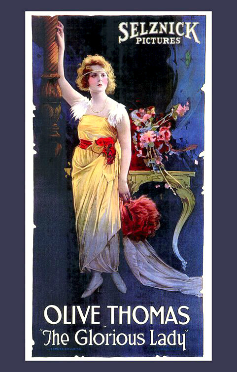 Poster from the 1919 film The Glorious Lady.